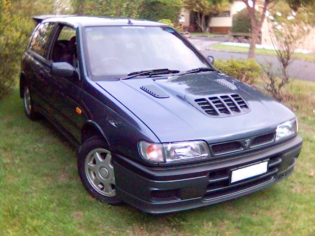 Nissan Pulsar GTI-R (Japanese grey import) without modifcations, photographed in Melbourne, Australia.